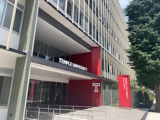 Temple University Japan, Tokyo Campus at Showa Women's University